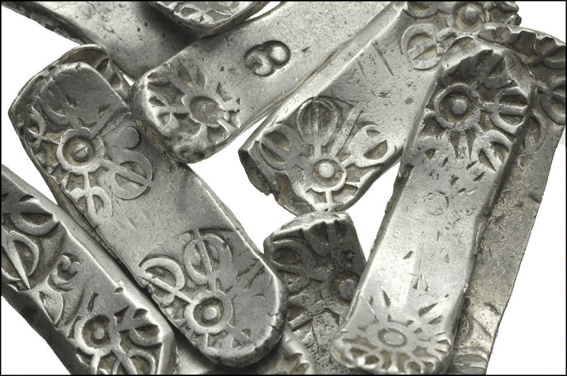 AR “Bent Bar” Satamanas. All coins Taxila. Circa 500-300 BC